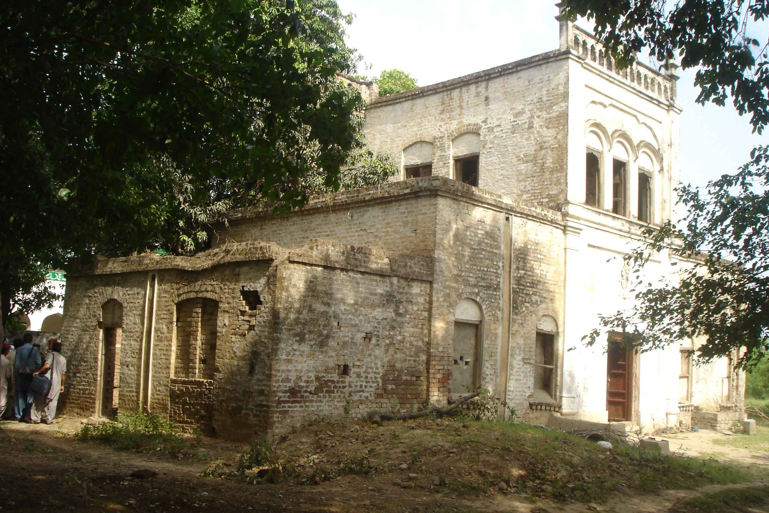 Historical Guest House Alipure Sayaddan Railway Staion